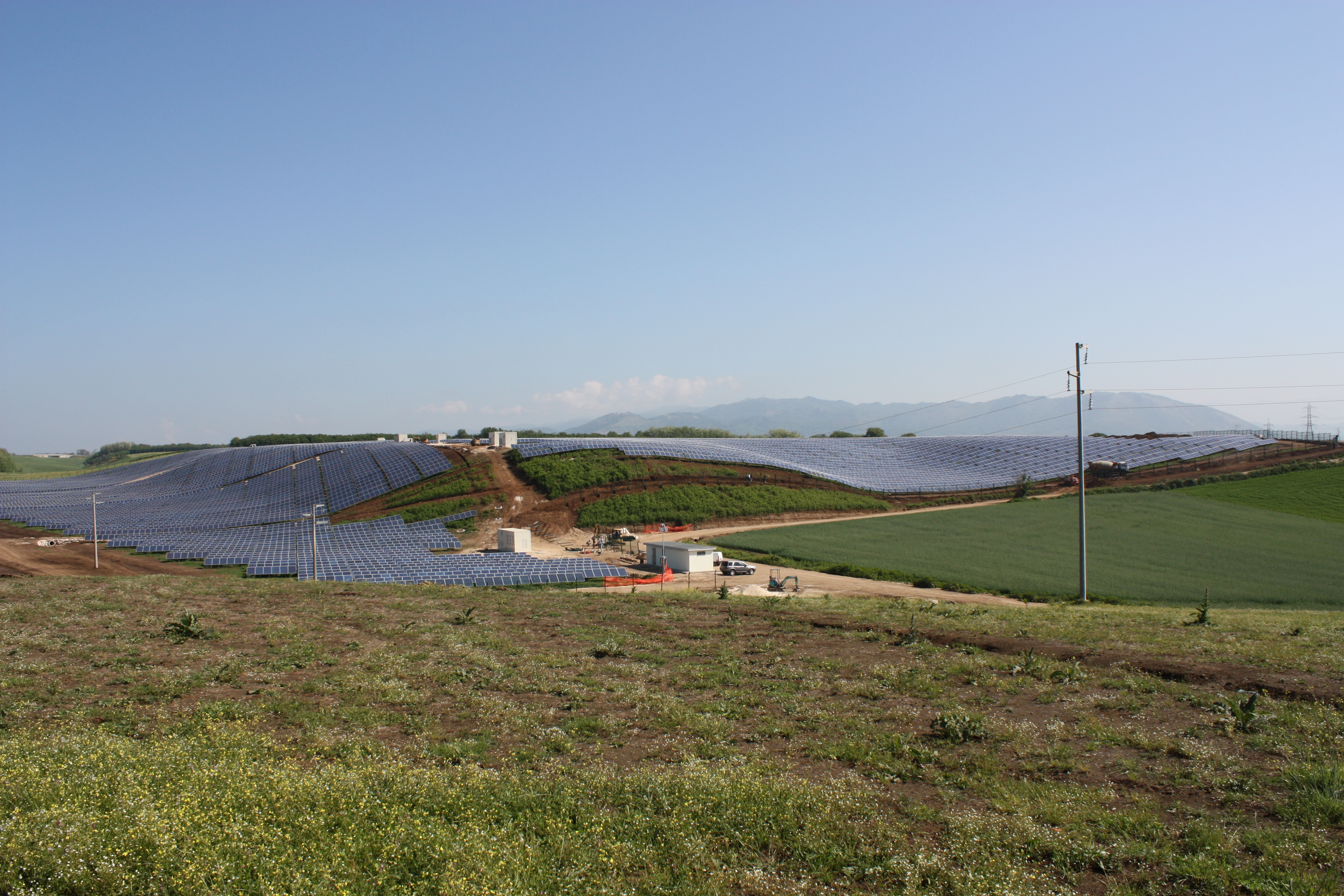 Picture of an RTR solar energy field installation